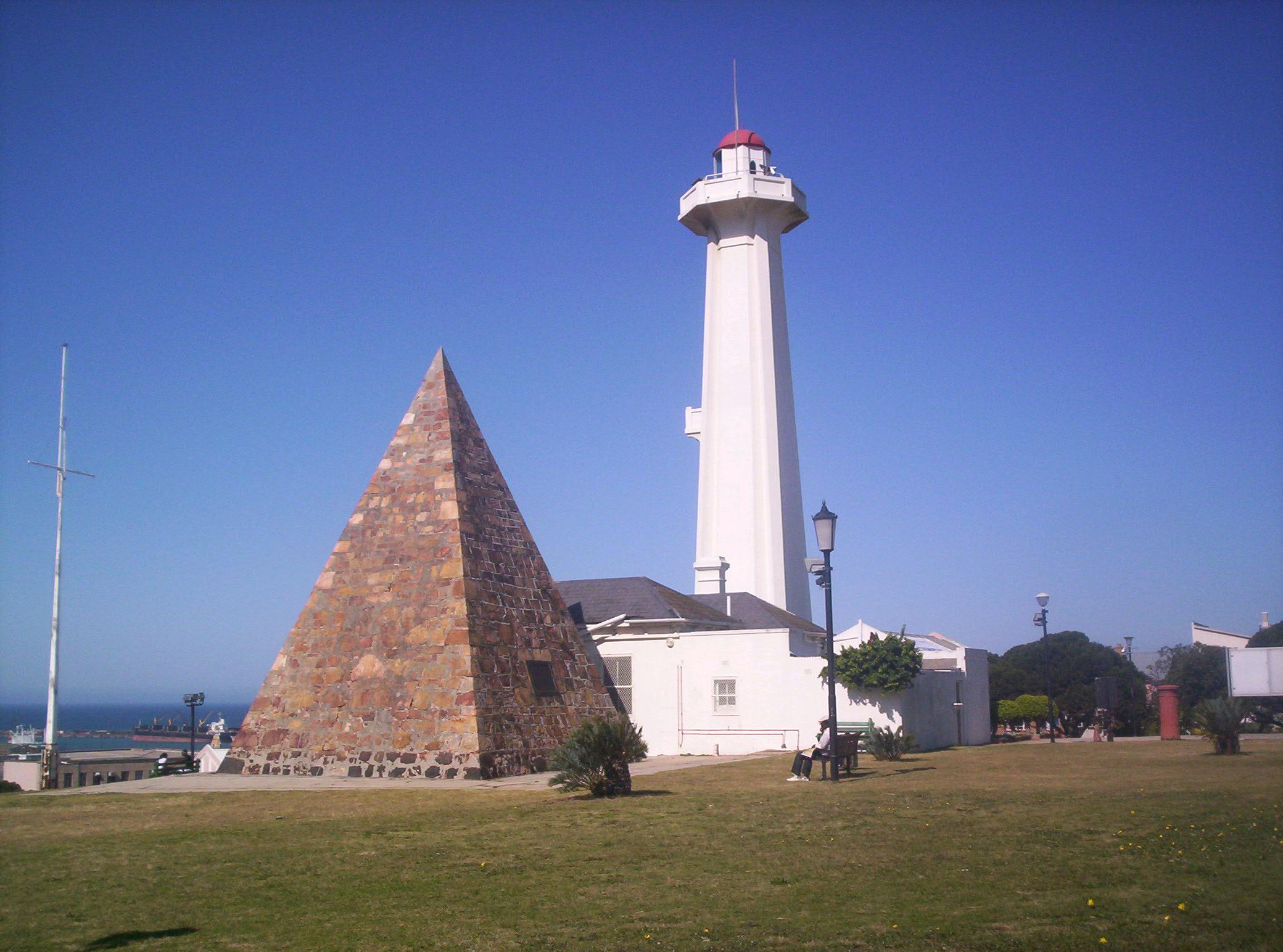 A picture of the Donkin Reserve. A monument erected in Port Elizabeth by Sir Rufane Donkin in memory of his wife Elizabeth.